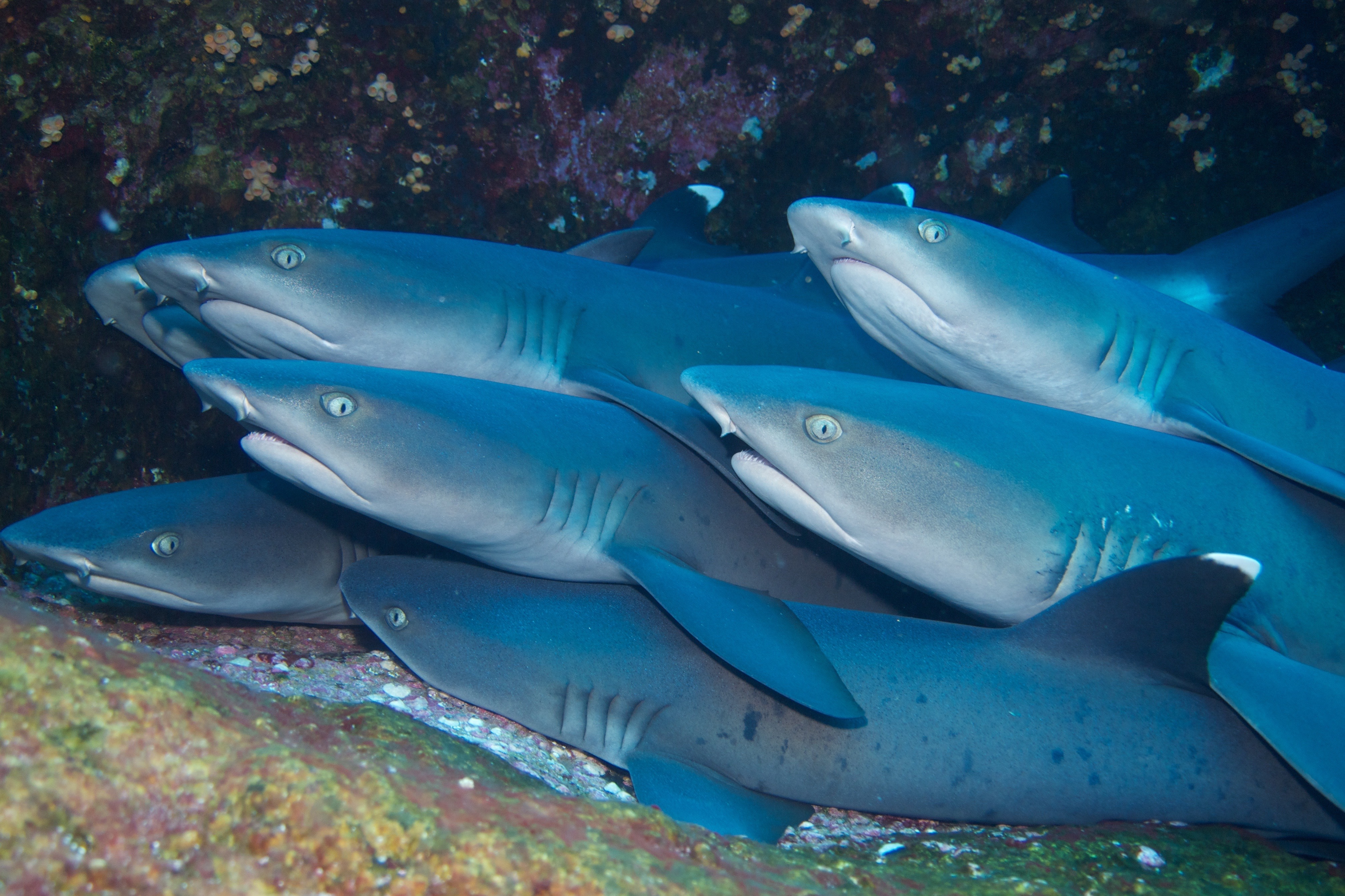 Whitetip reef sharks (Triaenodon obesus) in the Revillagigedo Islands.